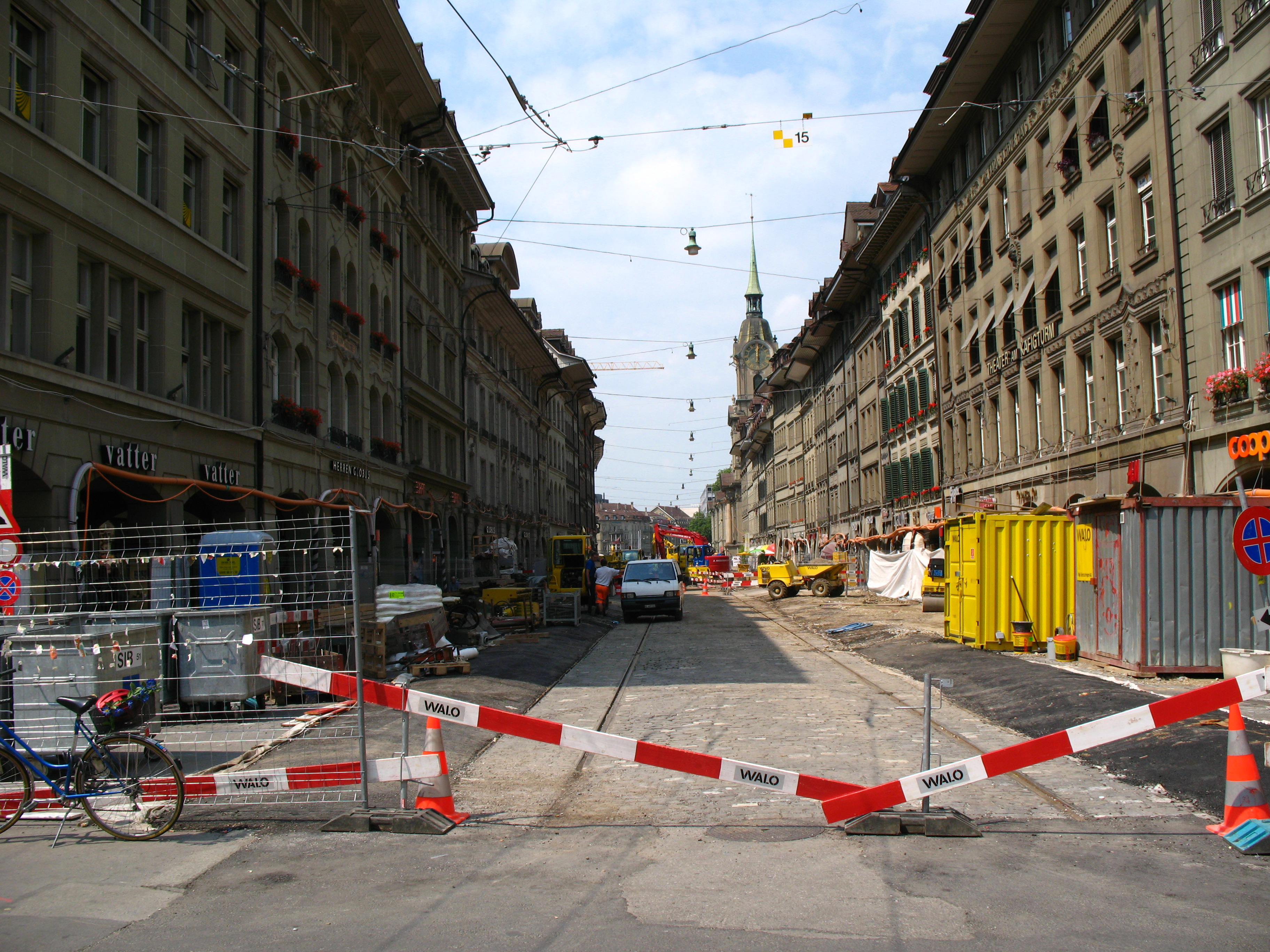 Hospital Lane, Berne, Switzerland